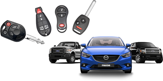 You can find the right key fob replacement, keyless entry remote or backup your original keyless entry remote head key